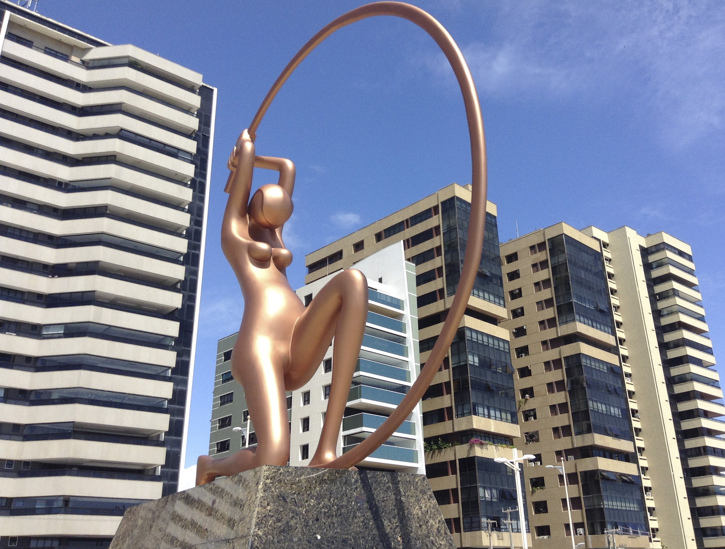 Statue of Iracema in Praia de Iracema neighbourhood, Fortaleza, Brazil.